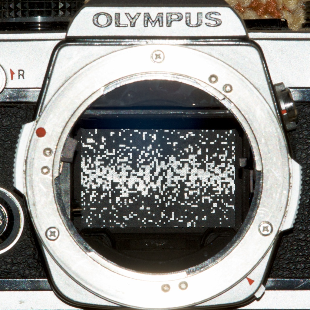 The unique OTF (off-the-film) metering system of the Olympus OM cameras. Two Cds meters on the lower left and right sides of the lens mount capture the light that's actually projected on the film, a pattern on the shutter (first curtain) reflects an estimated amount of light for exposure times of less than 1/45s, when the time that the shutter (partly) covers the film becomes significant.